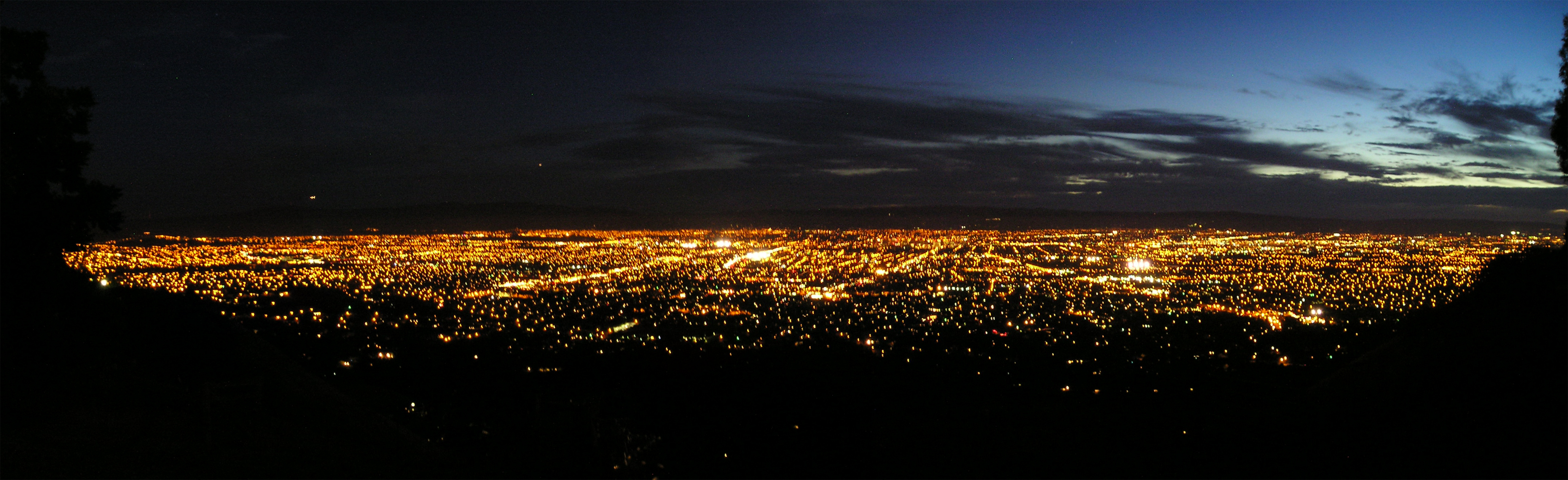 San Jose, California (Santa Clara Valley) at night, looking roughly west towards the coastal ranges. (Small camera, no tripod.)